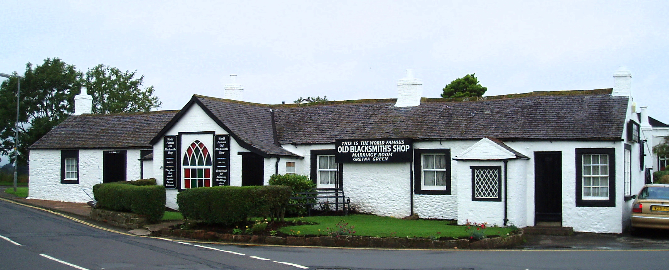 One time Gretna Green was the place to go to get married....now it's just all shopping!